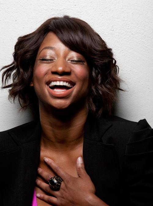 UN Youth Ambassador & Actress, Monique Coleman.